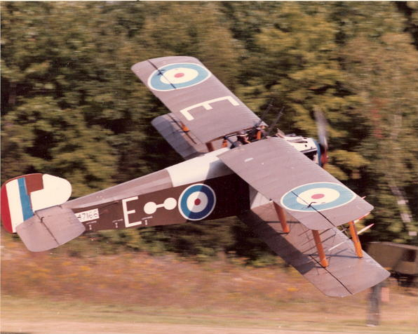 A photo of the Sopwith Dolphin reproduction built by James Henry "Cole" Palen Jr, founder of Old Rhinebeck Aerodrome, in flight during one of the museum's early-1980s airshows.